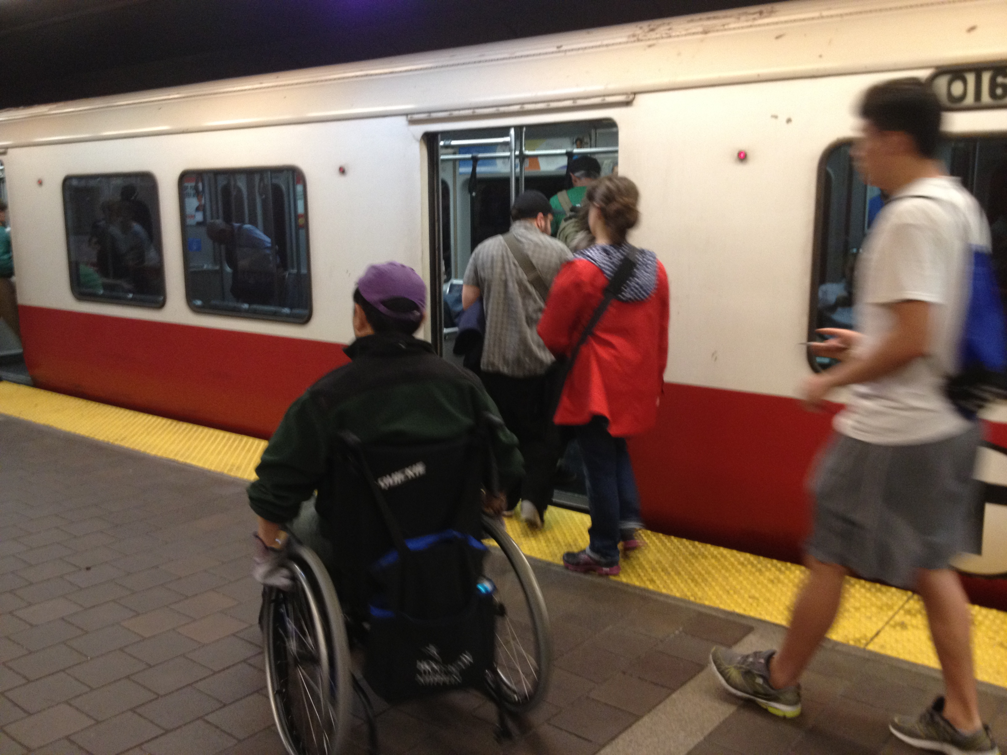 Person in a wheelchair entering an inbound Red Line train at Harvard Square